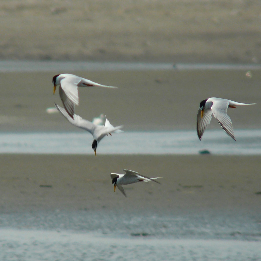 Little terns are hovering to hunt small fishes left in the tide pool. Tokyo bay. more slides